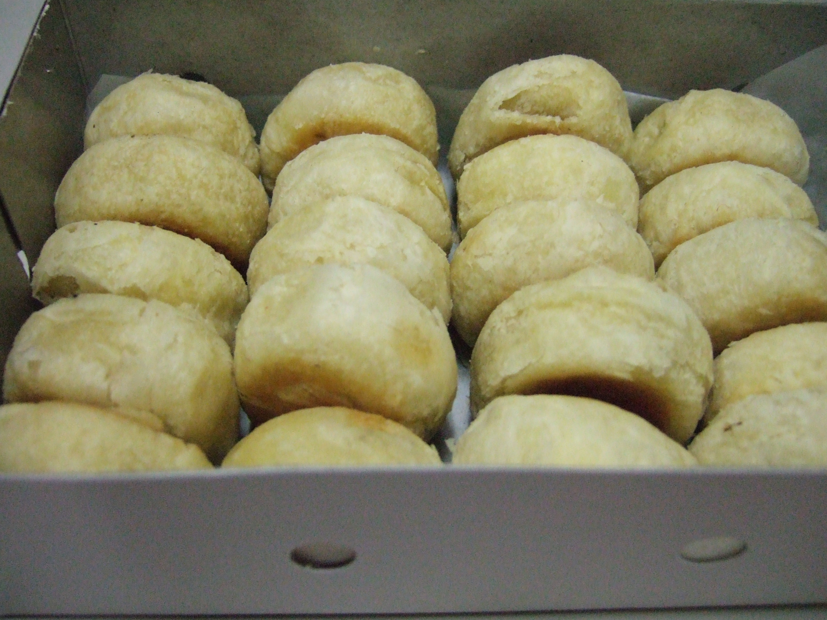 Bakpia (sweet pie from Yogyakarta)